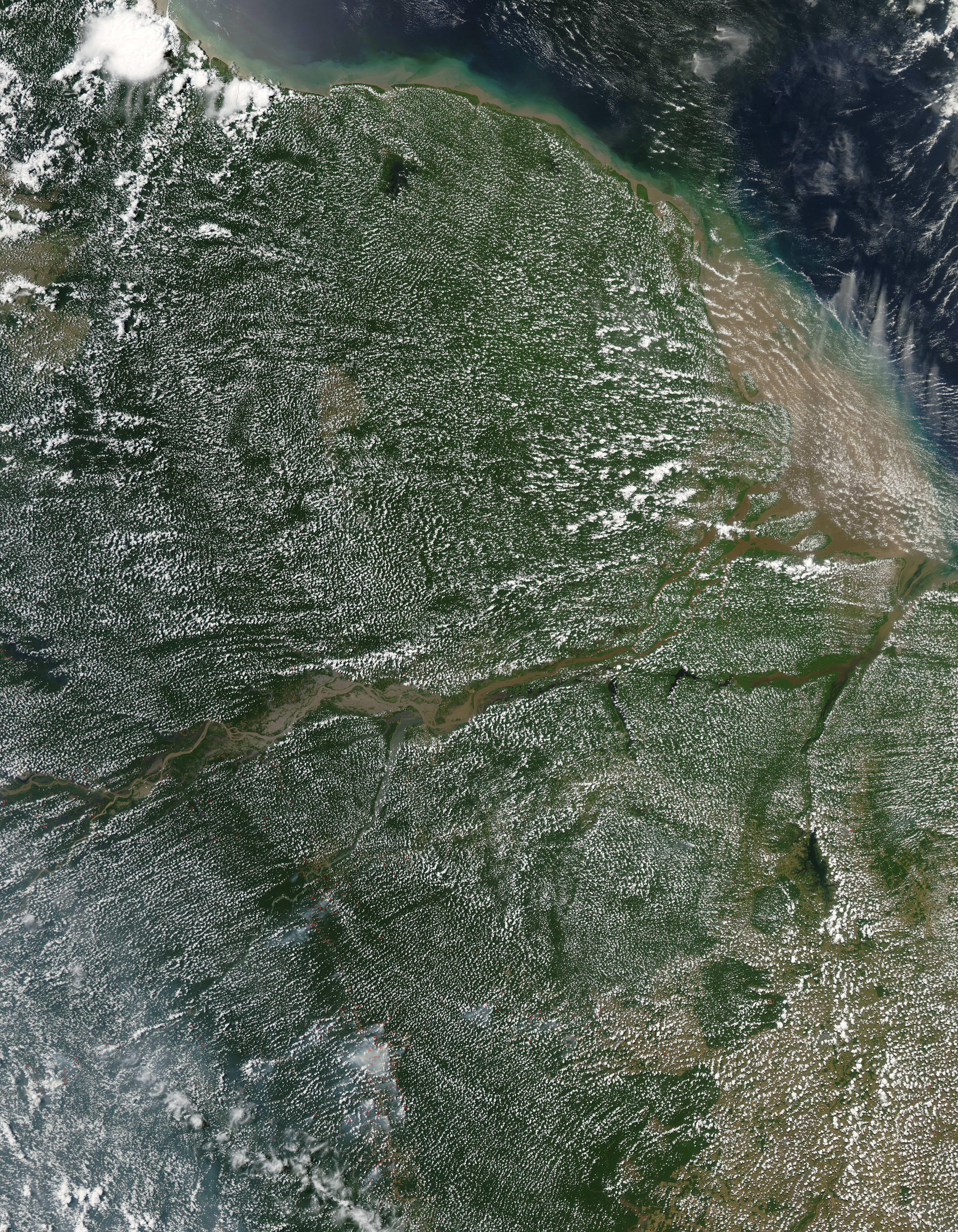 This image reveals how the forest and the atmosphere interact to create a uniform layer of “popcorn” clouds one afternoon. During the dry season, the rainforest gets more sunlight. The plants thrive, putting out extra leaves and increasing photosynthesis. The photosynthesising plants release water vapour into the atmosphere. Water vapour is more buoyant than dry air, so it rises and eventually condenses into clouds like the popcorn clouds shown in this image. These clouds are almost certainly a result of transpiration. The clouds are distributed evenly across the forest, but no clouds formed over the Amazon River and its floodplain, where there is no tall canopy of trees. When water vapour condenses, it releases heat into the atmosphere. The heat makes the air even more buoyant, and it rises. The higher it rises, the more the air expands and cools, which allows more water vapour to condense. Eventually, thunderstorms can form. The more concentrated clusters of clouds in the image are likely thunderstorms.